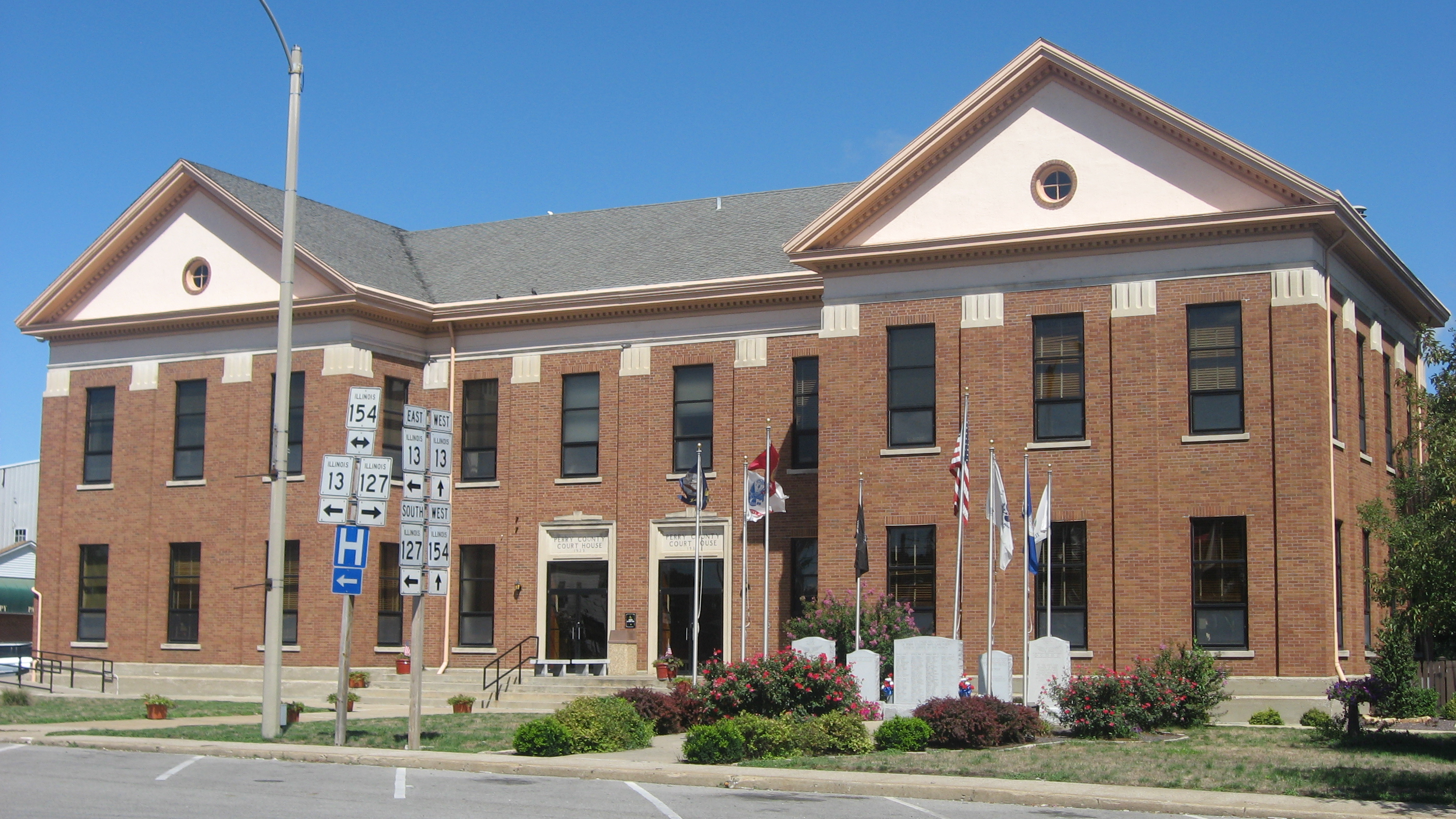 Front and eastern side of the Perry County Courthouse, located along Illinois Routes 13, 127, and 154 on Courthouse Square in Pinckneyville, Illinois, United States. It was built in 1850 and massively expanded in 1879 and 1939.